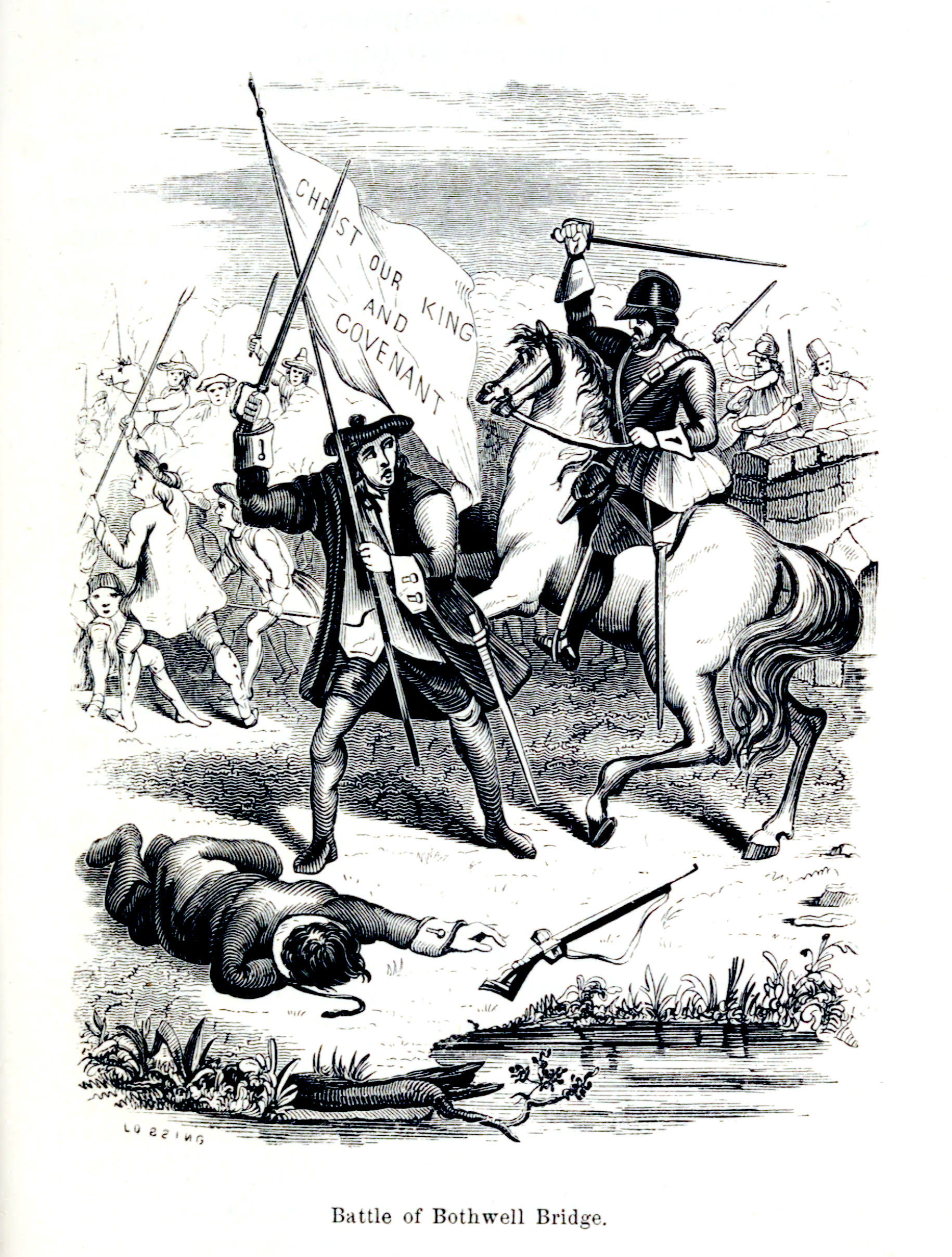 A Covenanting soldier being attacked by a cavalryman